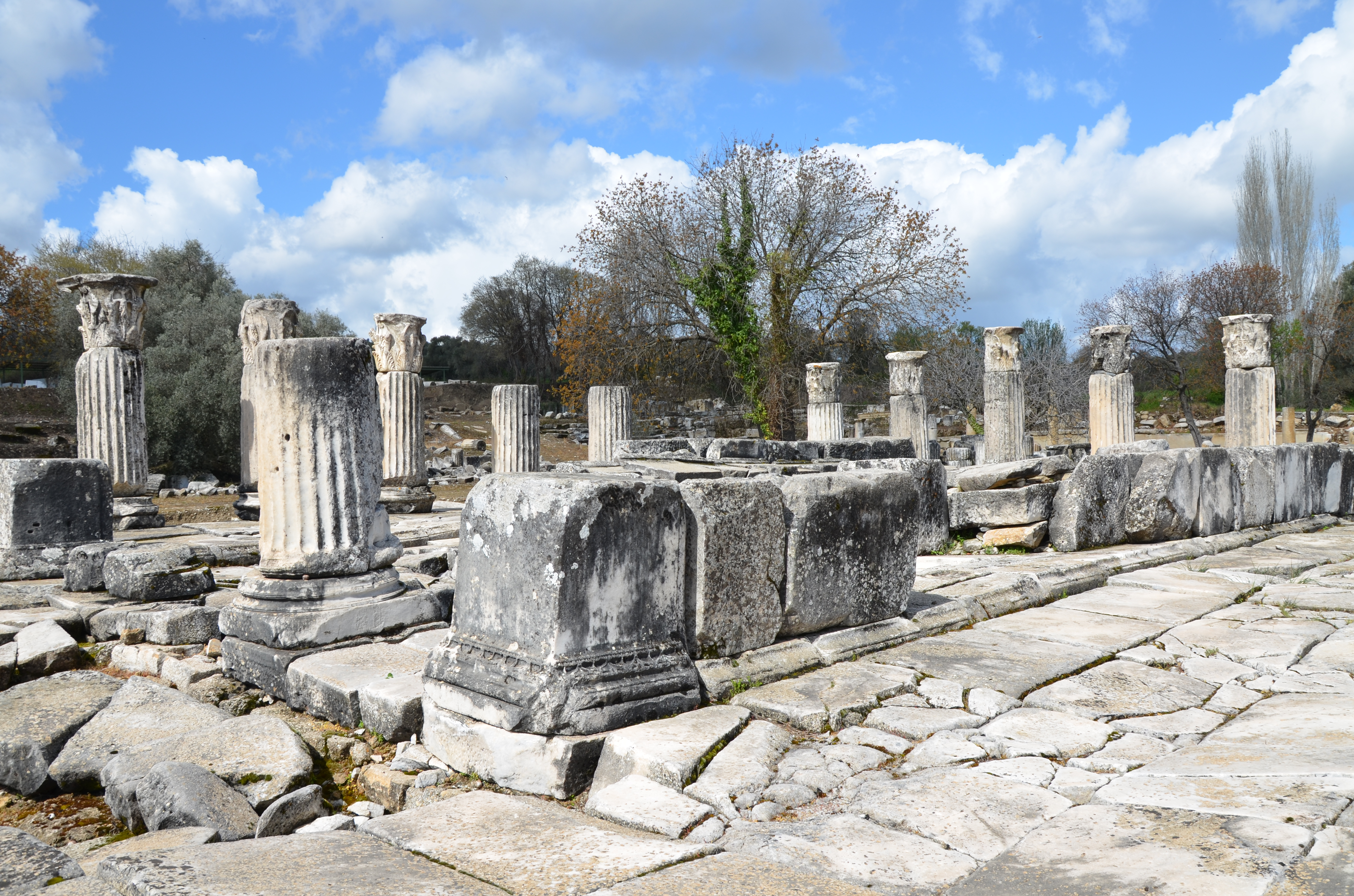 The Sanctuary of Hecate in Lagina, Caria, Turkey